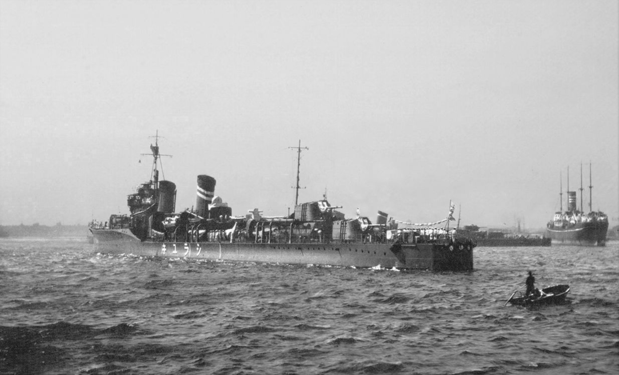 Shirayuki in 1931. Found here: [1]